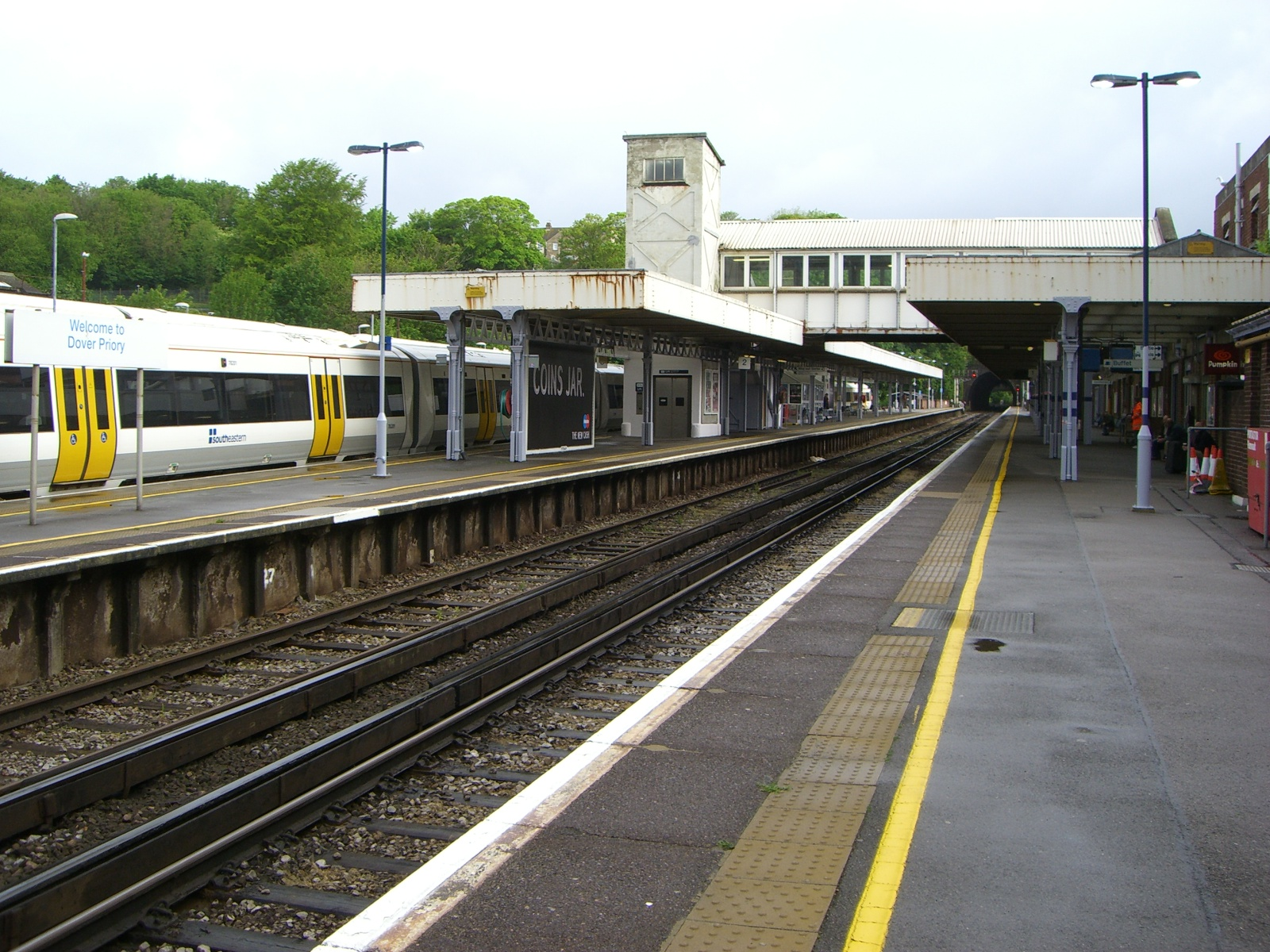 Here is a picture of Dover Priory as viewed towards the Ramsgate / Faversham end of the platform. Picture taken 12th May 2007 by Daniel Leach (atomicdanny). Updated (*22/08/2007) to replace previous picture (also taken by Daniel Leach) as this version shows more of the station. There is also a South Eastern Class 375 present in the Picture, with the running number of 375003) There should be the service from ramsgate to london in the picture but it was running late due to engineering works